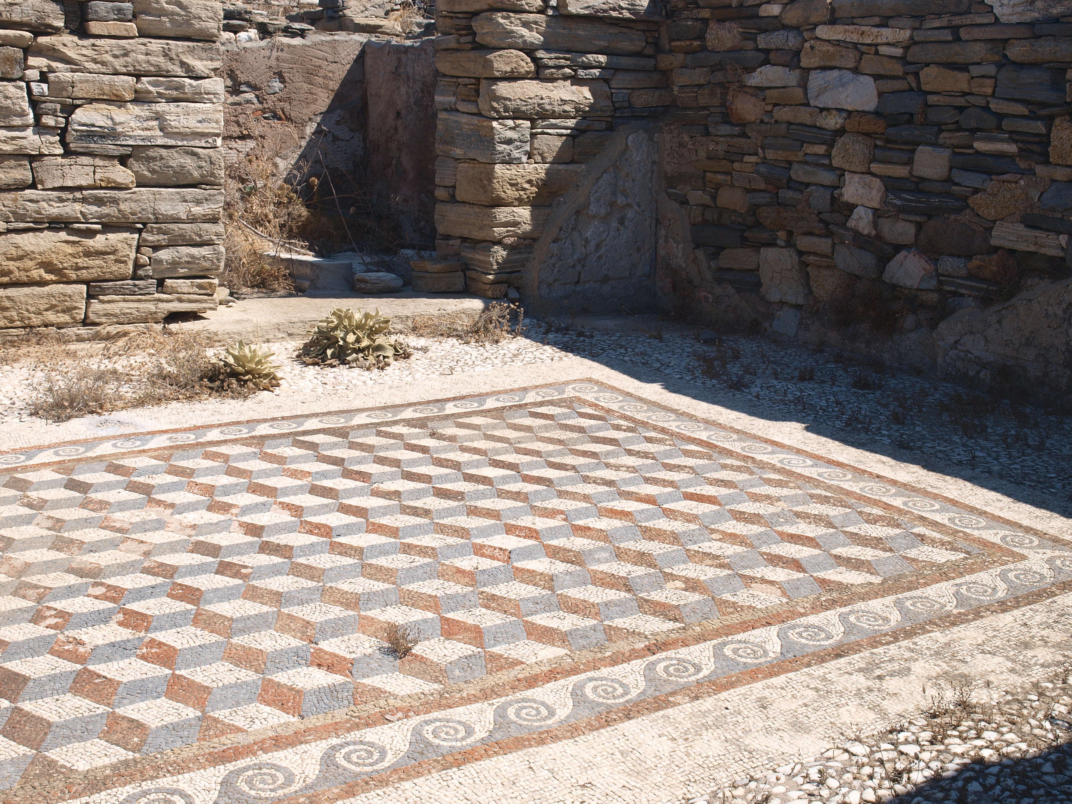 AWIB-ISAW: Houses on Delos (XLII) A cubic floor mosaic in a house on the Greek island of Delos. by Irene Soto (2010) copyright: 2010 Irene Soto (used with permission) photographed place: Delos (Delos) [1] Published by the Institute for the Study of the Ancient World as part of the Ancient World Image Bank (AWIB). Further information: [2].